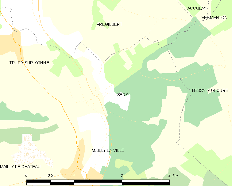 Map of French municipality Sery